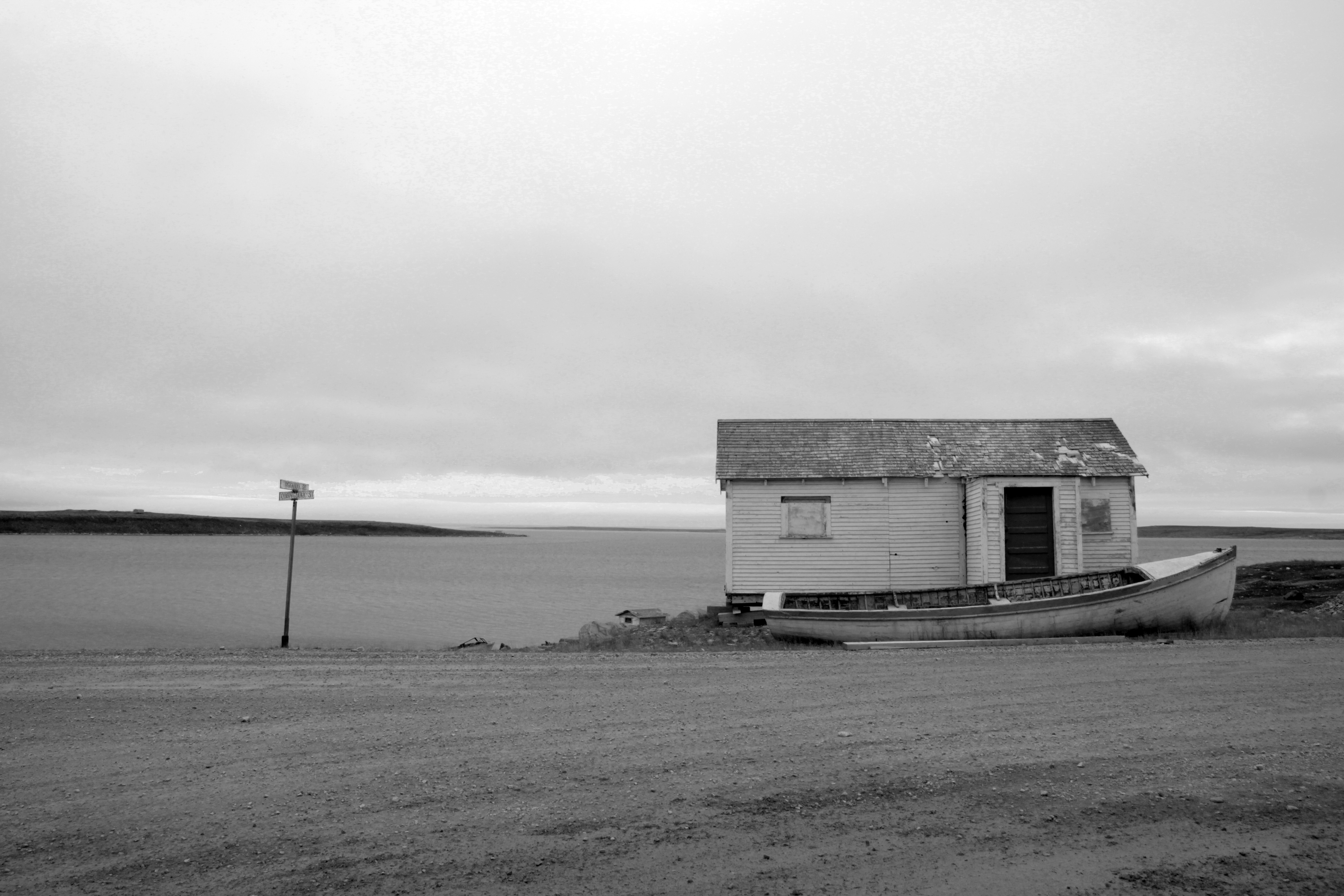 View of the bay from the shore of the Hamlet of Cambridge Bay